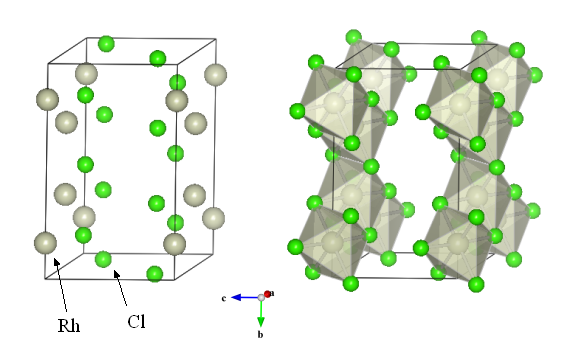 Cristal structure of rhodium trichloride, drawn using VESTA ( K. Momma and F. Izumi, Commission on Crystallogr. Comput., IUCr Newslett., No. 7 (2006) 106-119. )